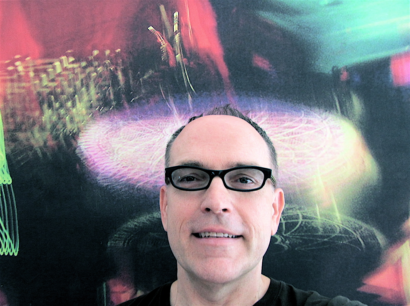 Alfred 23 Harth - August 2010 - in front of an art piece of his from the year 2003.